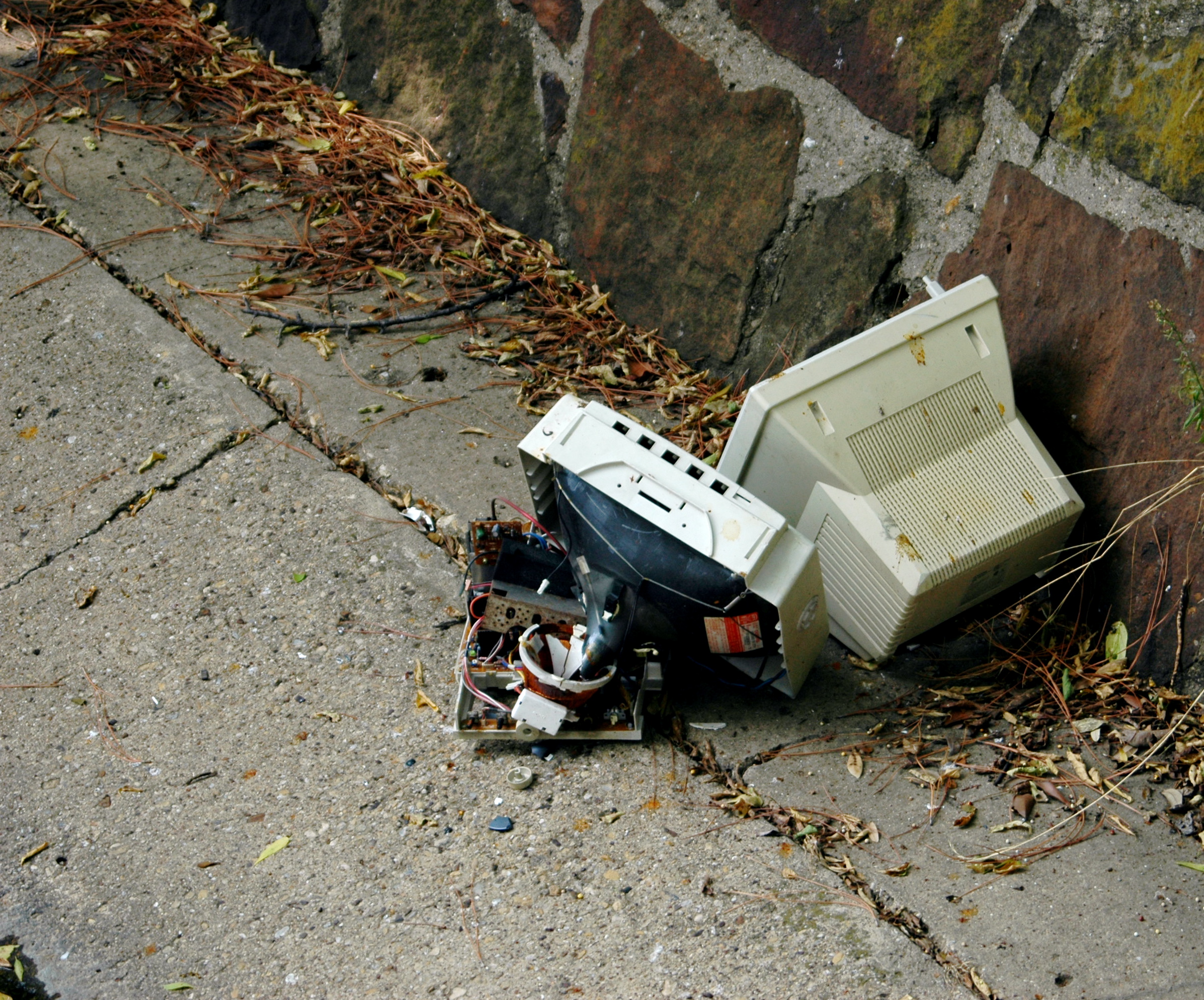 A computer monitor in the gutter (Denton, TX).